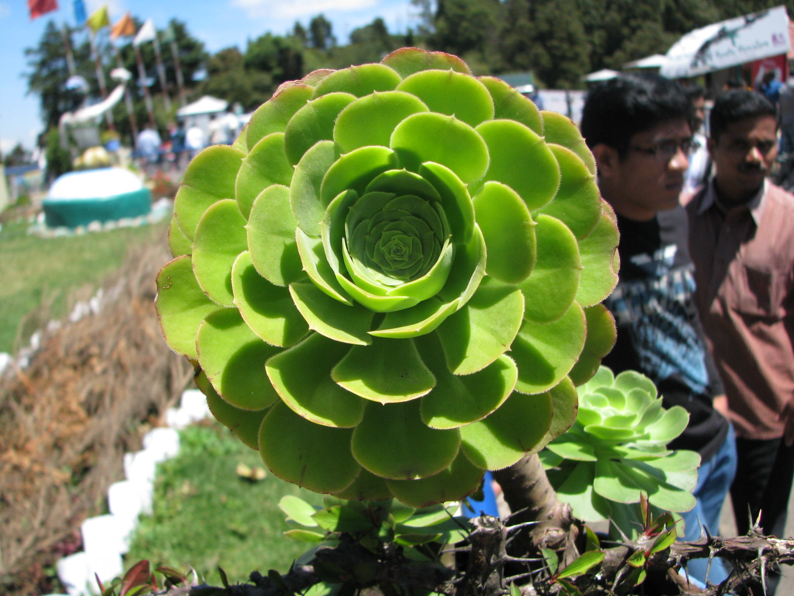 Cactus type of succulent plant